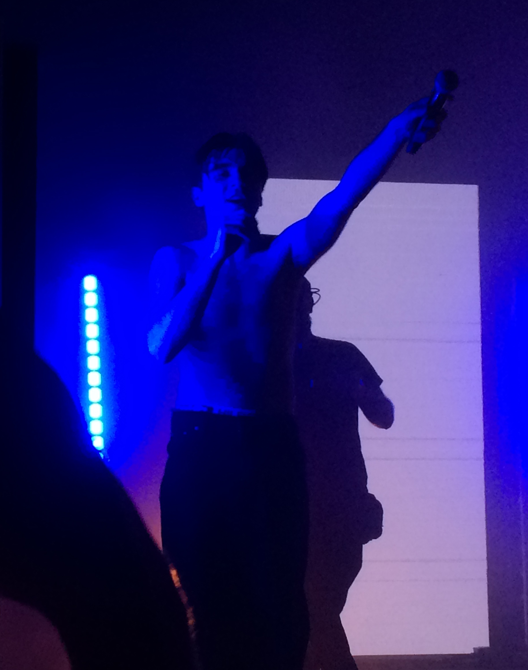 Mata, Polish raper. Klub Studio, Kraków.